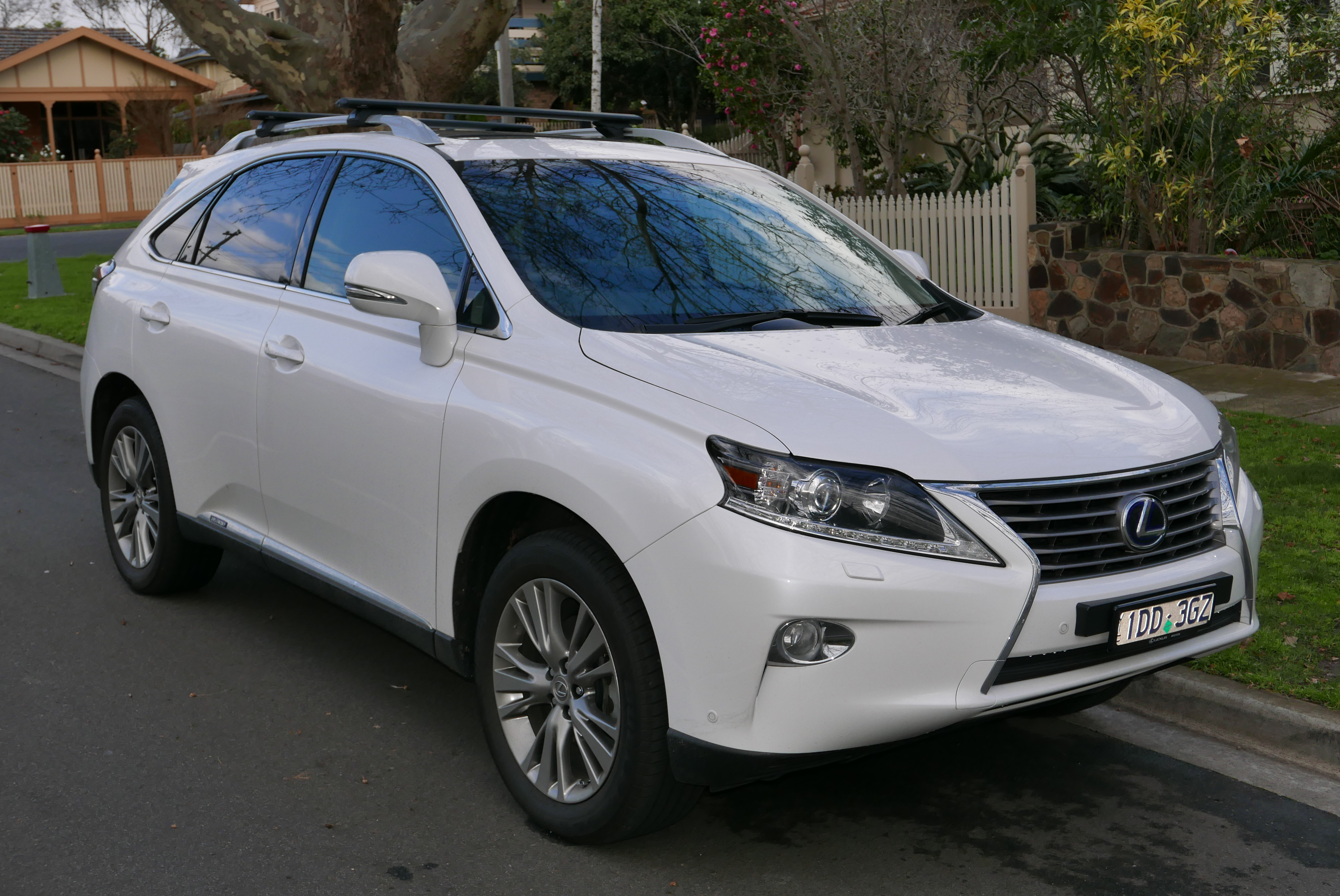 2014 Lexus RX 450h (GYL15R) Luxury wagon. Photographed in Ivanhoe, Victoria, Australia. Vehicle registration enquiry resultsJurisdictionVictoriaRegistration1DD3GZChassis codeJTJBC11A802462563Engine code2GRJ972354Compliance date2014-07Year of manufacture2014